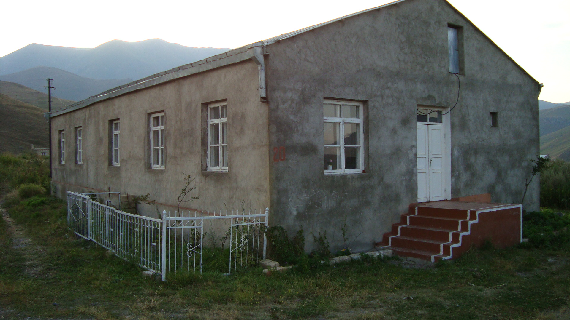 New school in Tsar. Shahumian district, Republic of Mountainous Karabakh.